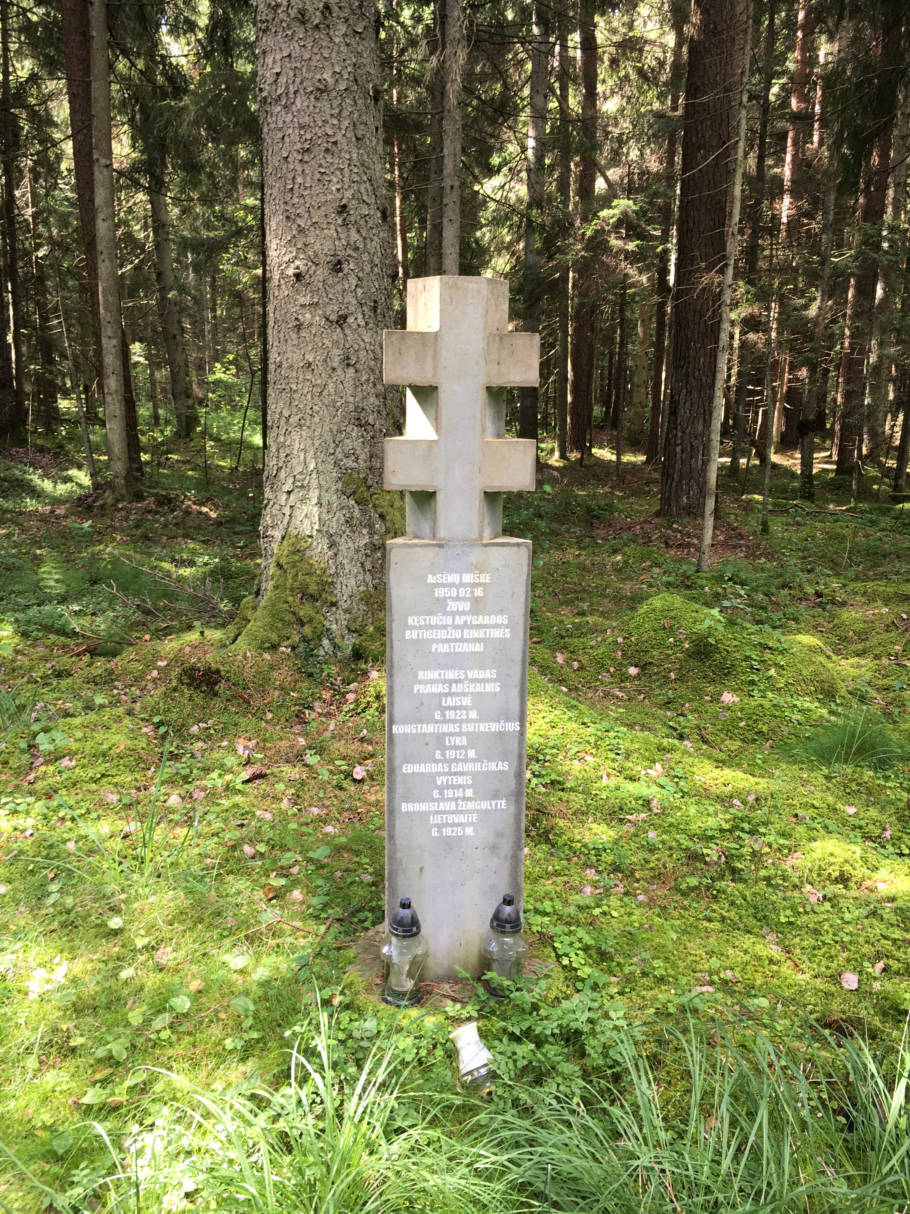 Standard memorial for Lithuanian freedom fighters (Aisėnai forest, Klaipėda district)